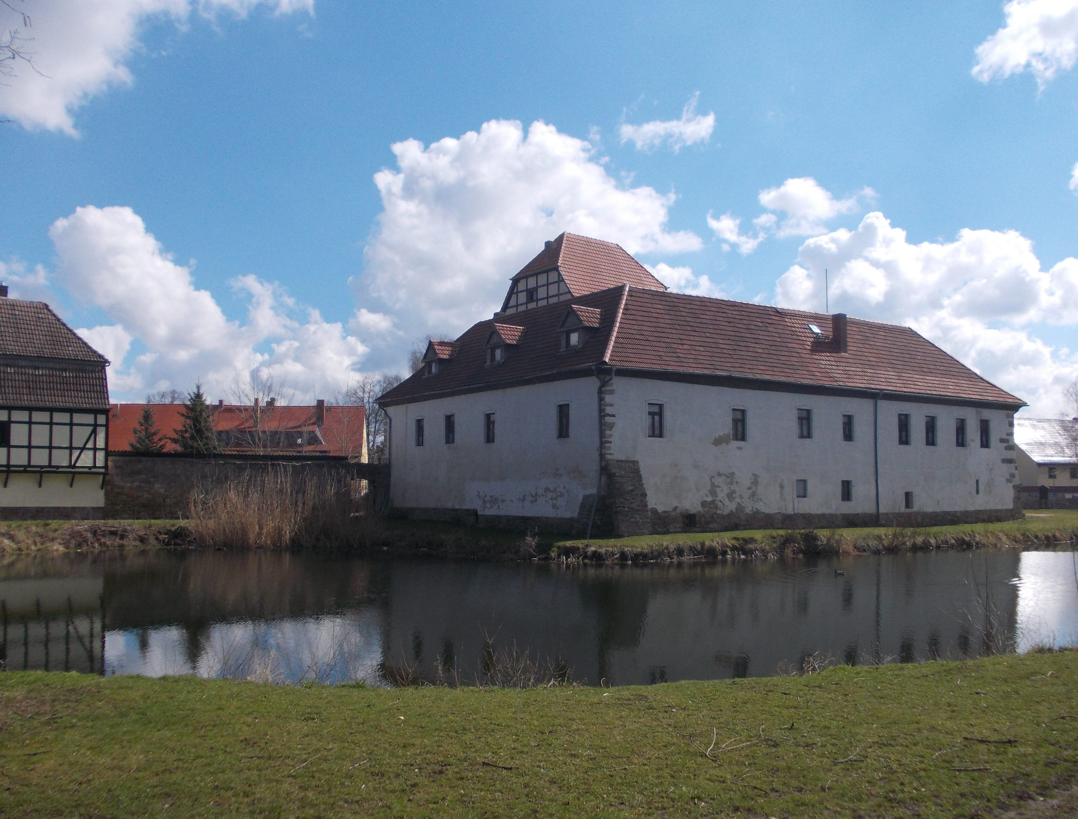 The water castle of Oberfarnstädt (Farnstädt, Saalekreis, Saxony-Anhalt)